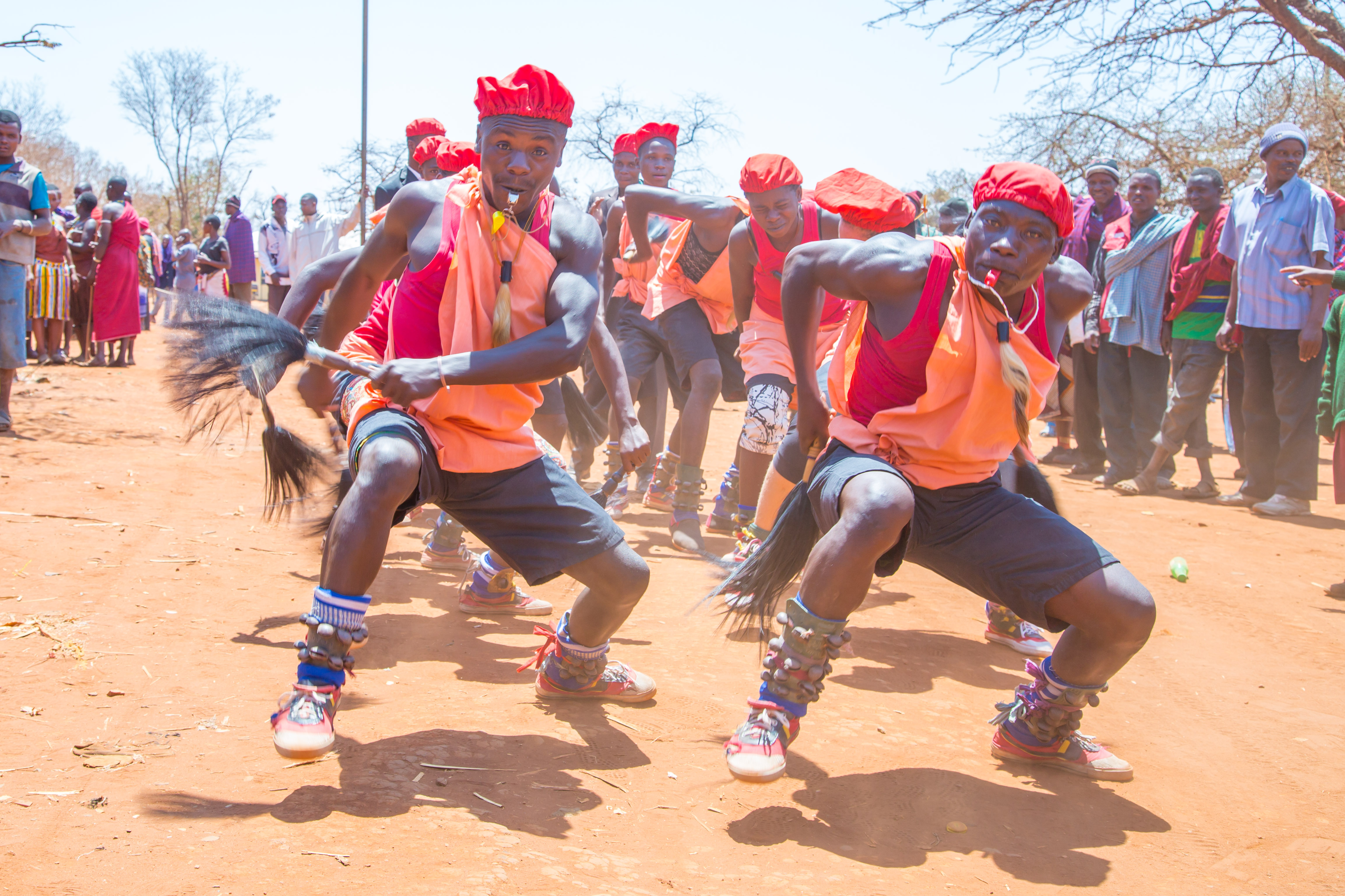 Sukuma tribe traditional Dance by Mchele Mchele group. This is an image from Tanzania